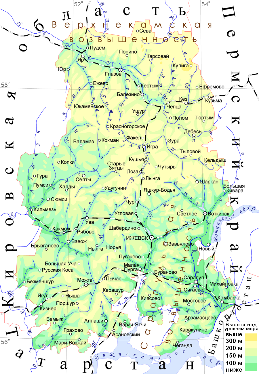 Map of Udmurtia